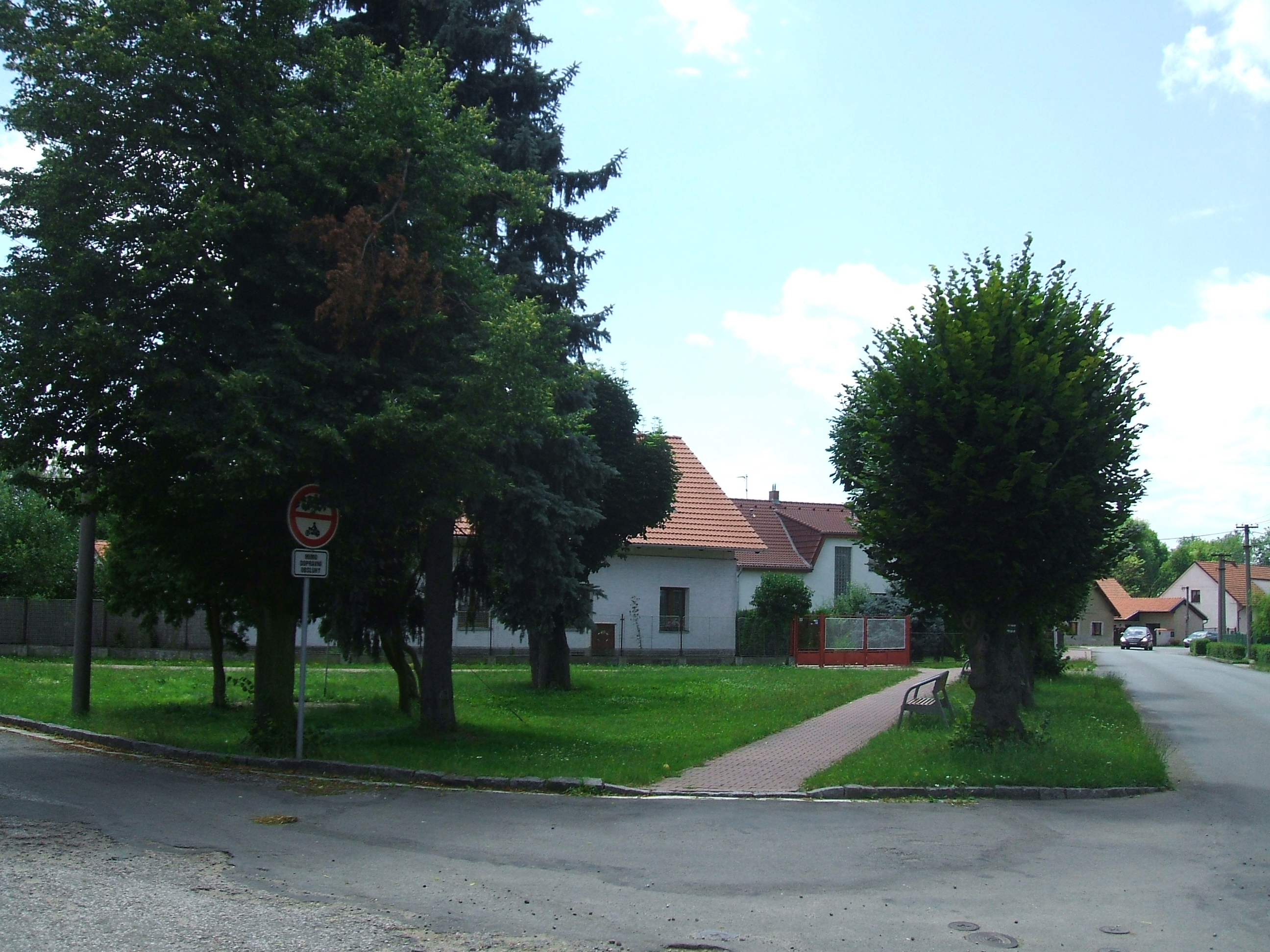 Brozany, part of Staré Hradiště, Pardubice District, Czech Republic. Česky: Brozany, část obce Staré Hradiště, okrese Pardubice